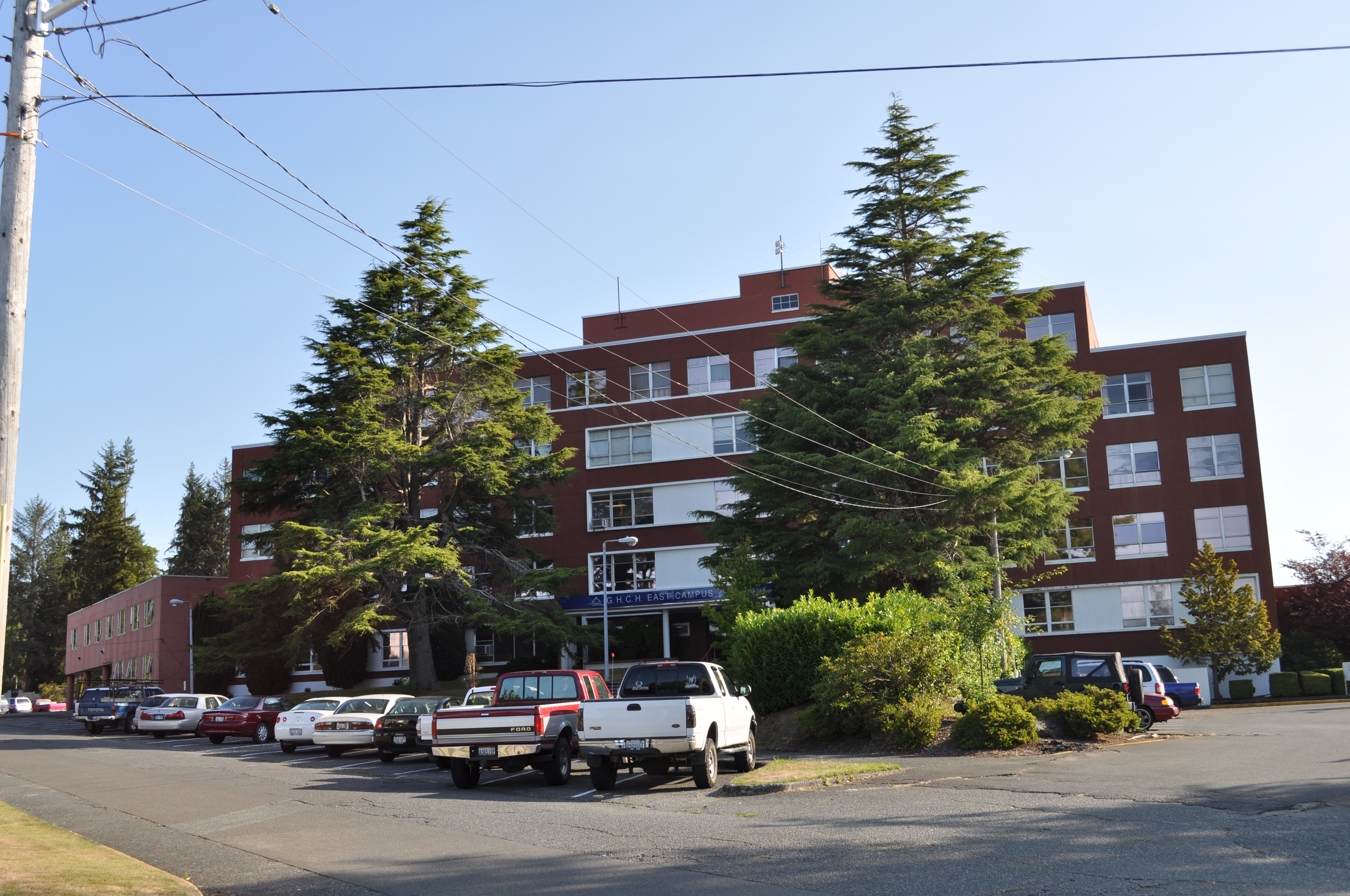 Grays Harbor Community Hospital - East Campus, Aberdeen, Washington, USA.